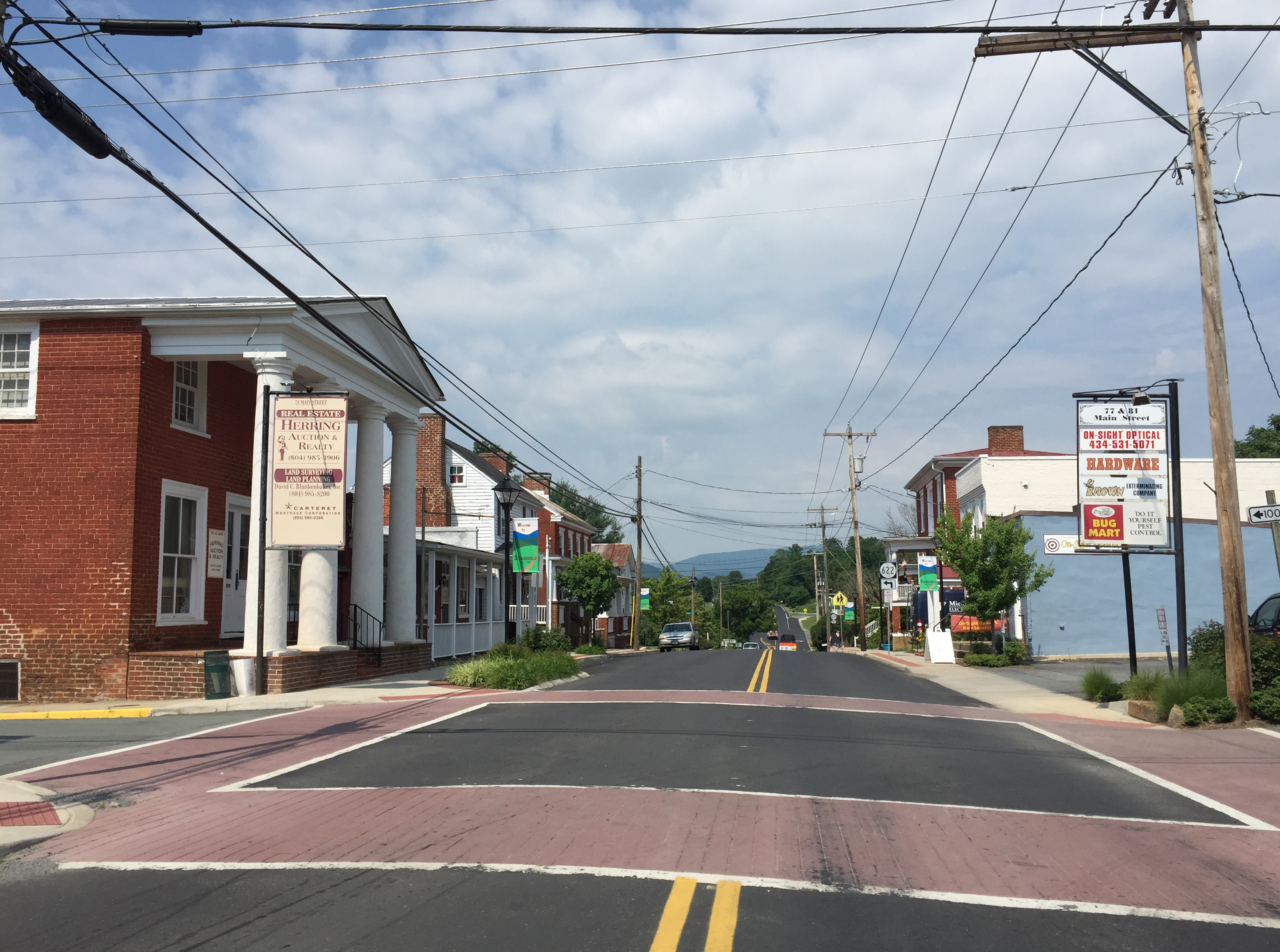 View west along U.S. Route 33 Business (Old Spotswood Trail) at Ford Avenue in Stanardsville, Greene County, Virginia